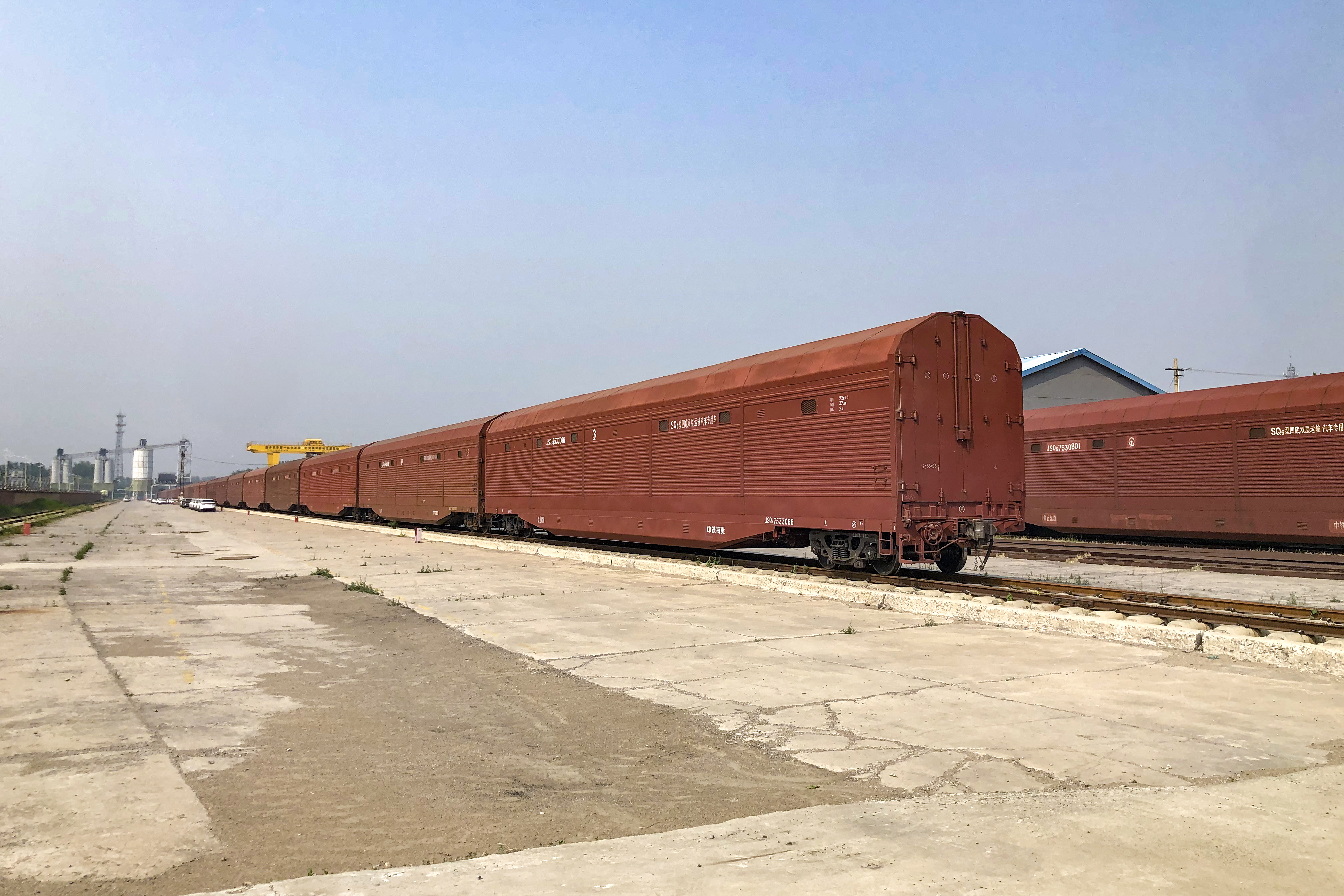 This is a station on the Pinggu Local Railway, and the main cargo is... sedan.